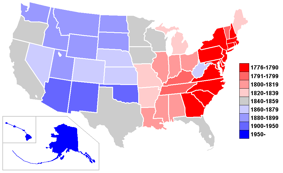 Yet another version of Image:US_states_by_date_of_statehood.PNG